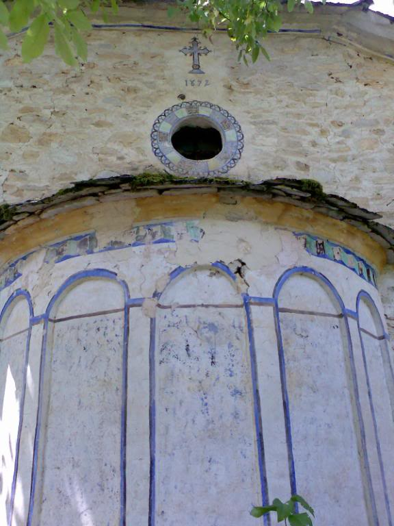 Village of Vir, Poreche region, Republic of Macedonia